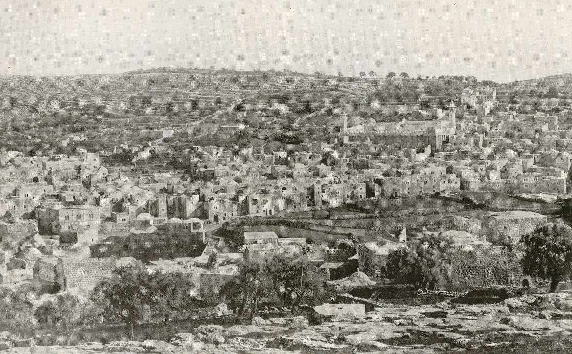 Hebron circa 1910